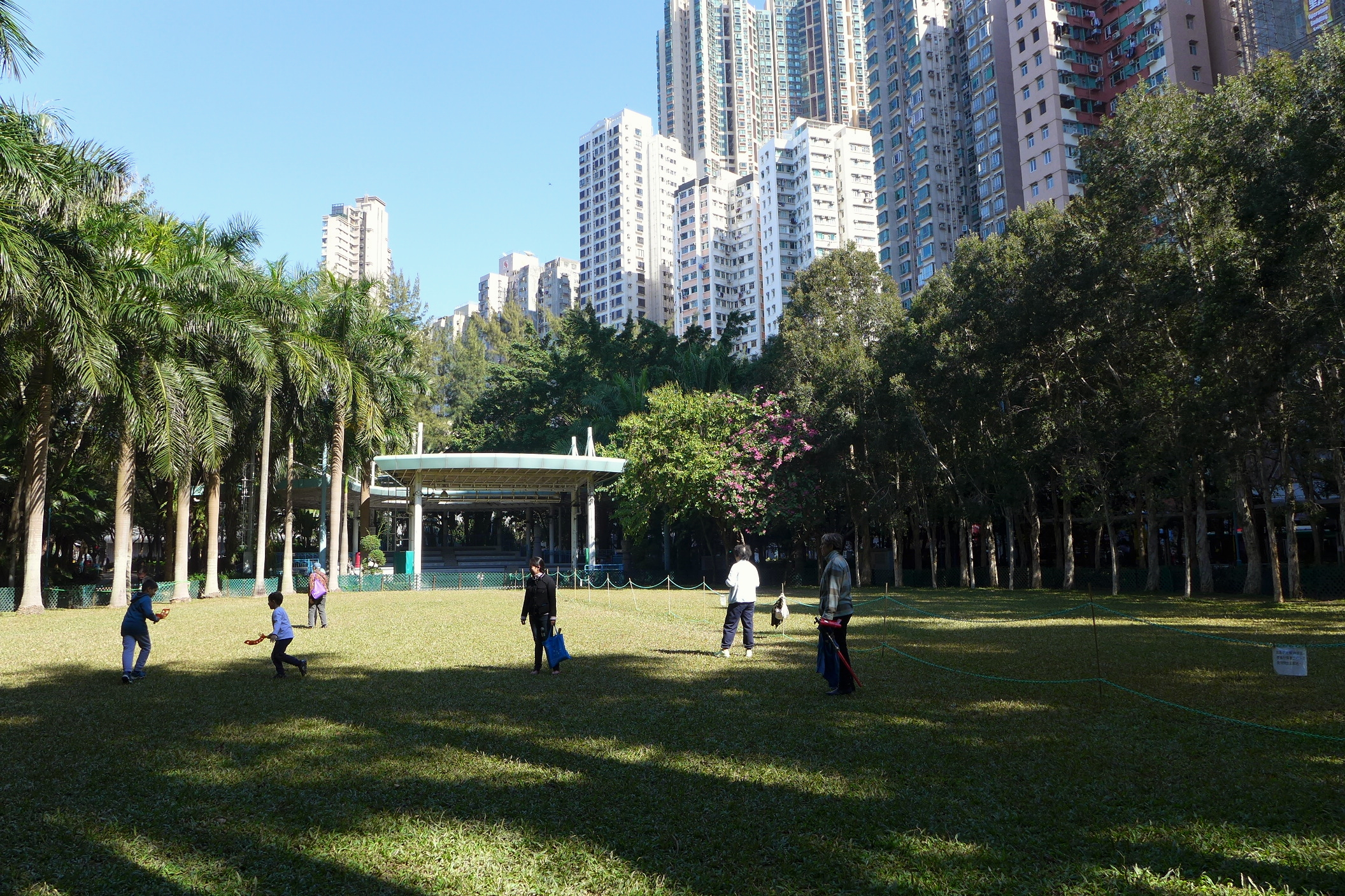 Belcher Bay Park Central Lawn